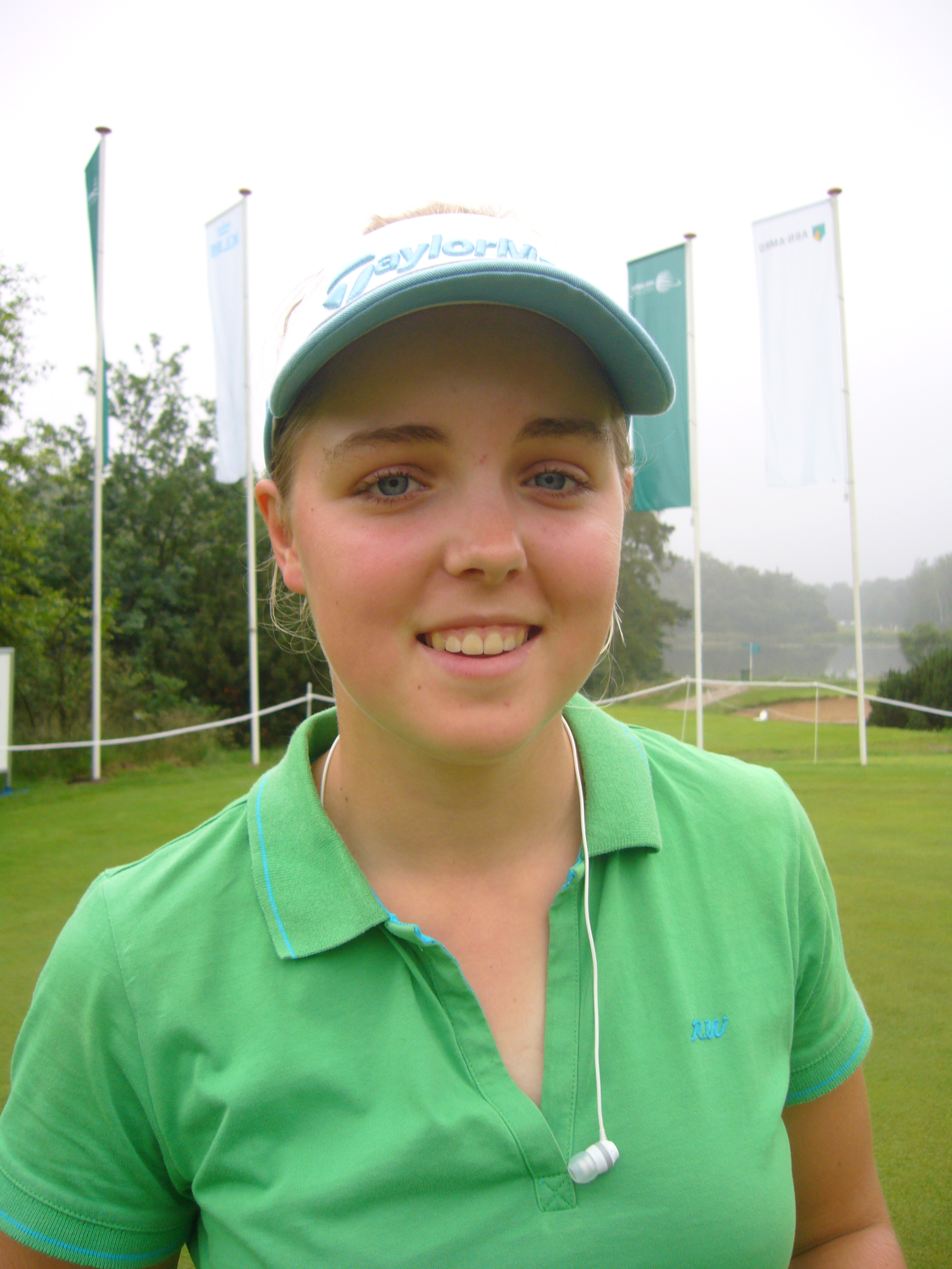 Laurence Herman, Belgian golf amateur